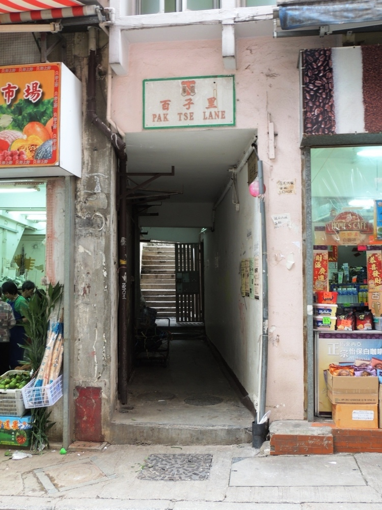 entrance of Pak Tsz Lane